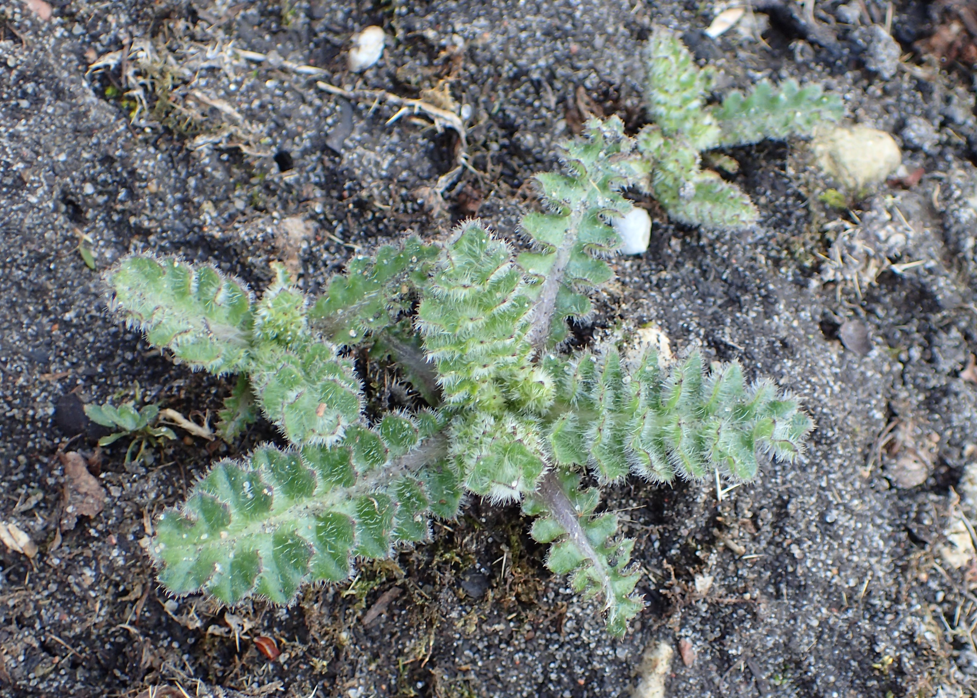 Cirsium acaule, young shoots, Warsaw University Botanical Garden